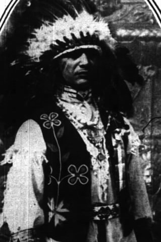 Nipo Strongheart "in full regalia" from before his tour for the YMCA War Work Council as a performer/lecturer on Native American culture and issues.